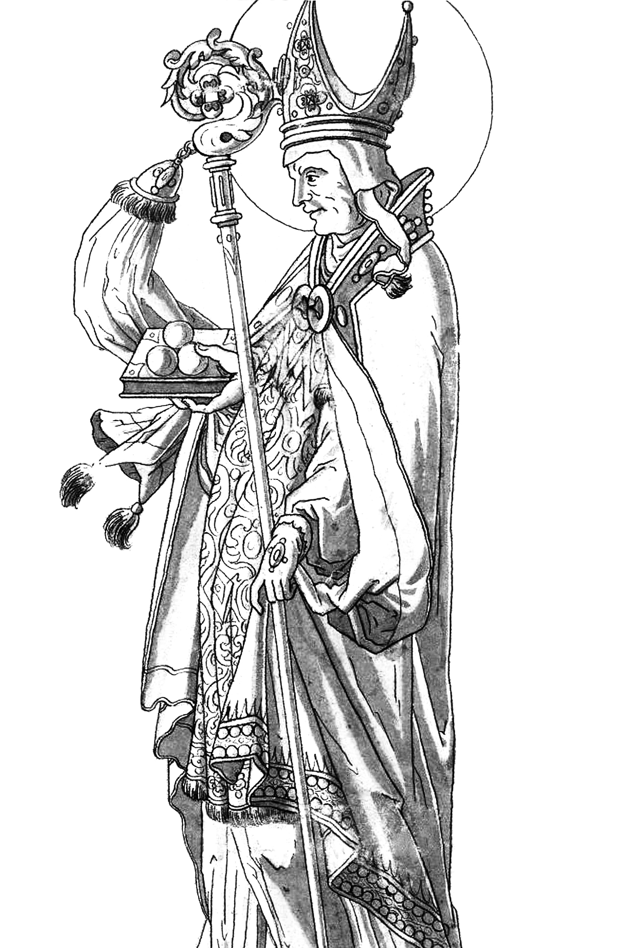 Saint Nicholas original inscribed with a handwriting from a later date b.r.: J. Jacob / Wegman / ... 27 x 18 cm